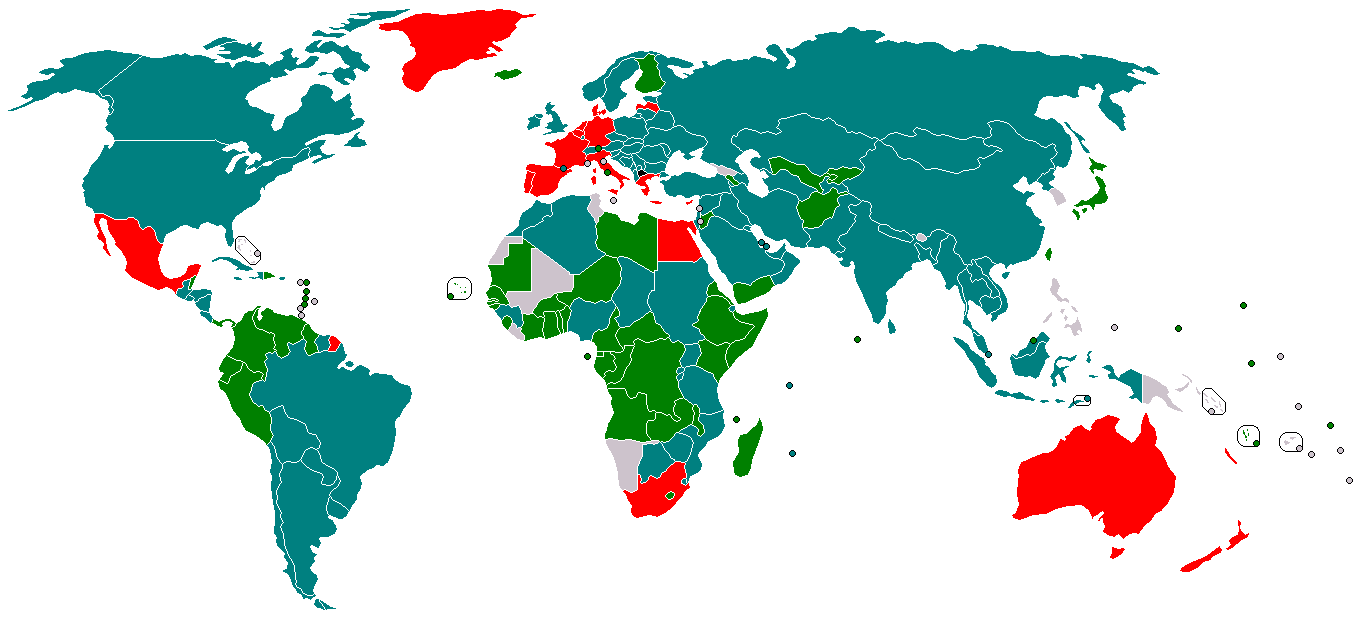 red - FYROM, blue - RoM for bilateral use, green - not sorted, gray - no relations